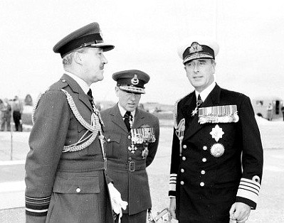 AWM Caption: Distinguished guests at RAF Station Ta Kali, Malta on the occasion of the final ceremonial parade by 78 Fighter Wing RAAF are (left to right): Air Marshal Sir Donald Hardman, representing the Air Council Sir Claude Pelly, Commander in Chief Middle East Air Forces Admiral Lord Louis Mountbatten, retiring Commander in Chief Allied Forces Mediterranean The Wing is returning to Australia after two years garrison duty in Malta.